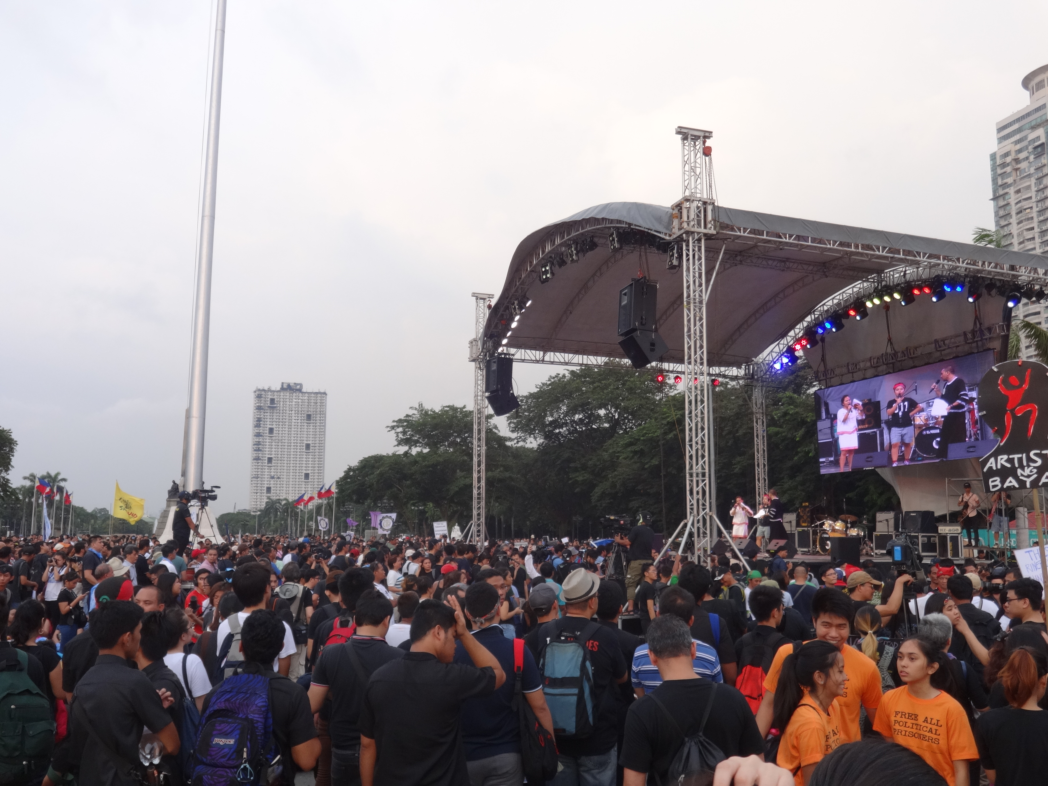 Anti-Duterte protests in Rizal Park, Manila